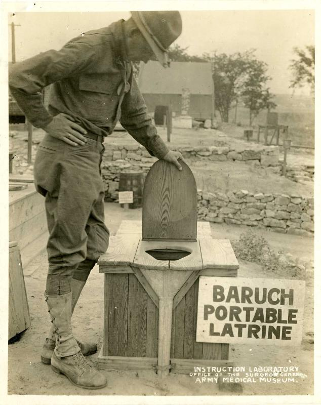 Baruch portable latrine. Fort Riley, Kansas. World War 1.